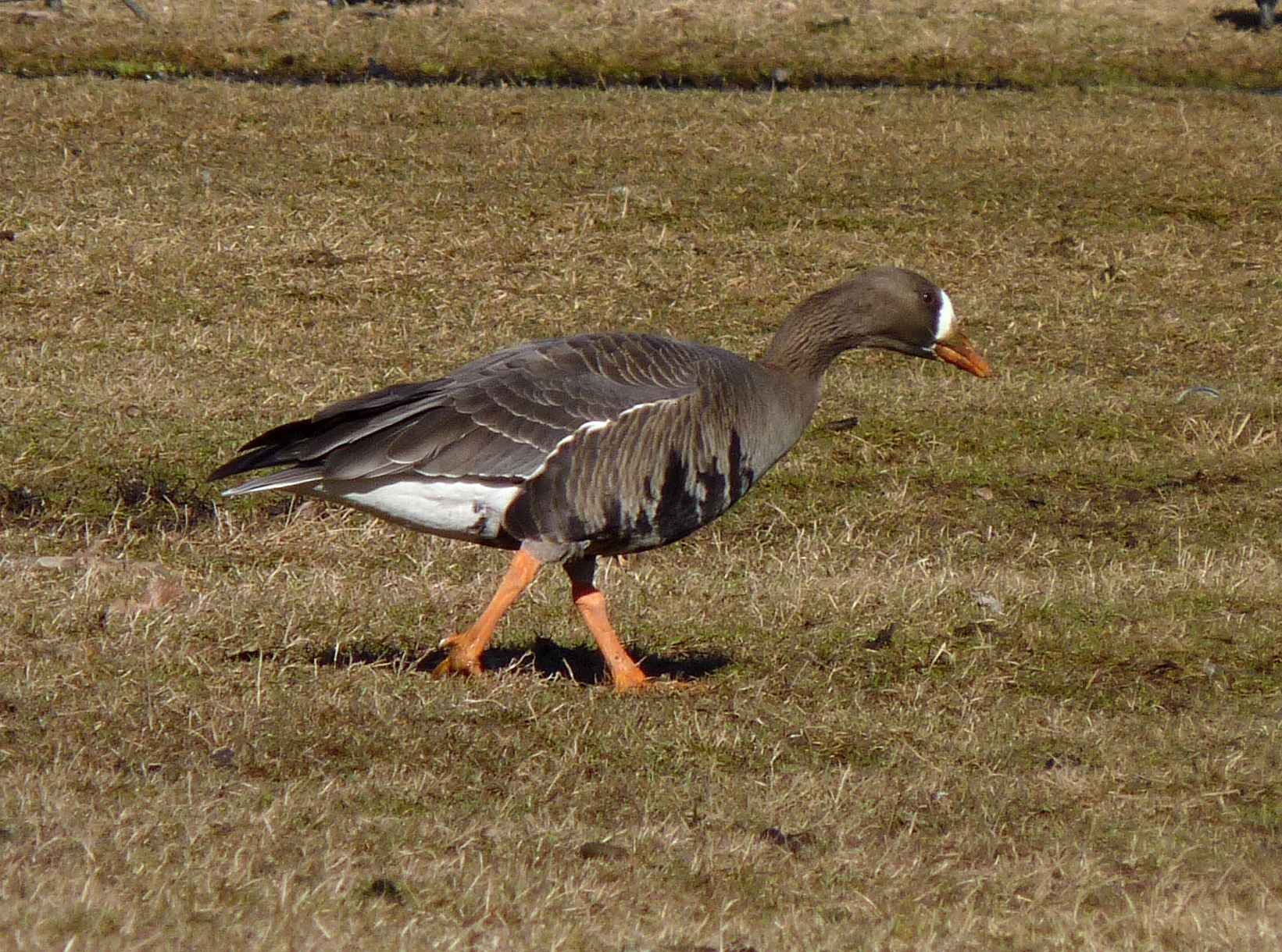 Greenland White-fronted Goose Anser albifrons flavirostris, Donaldson Park, Highland Park, Middlesex County, New Jersey, USA.